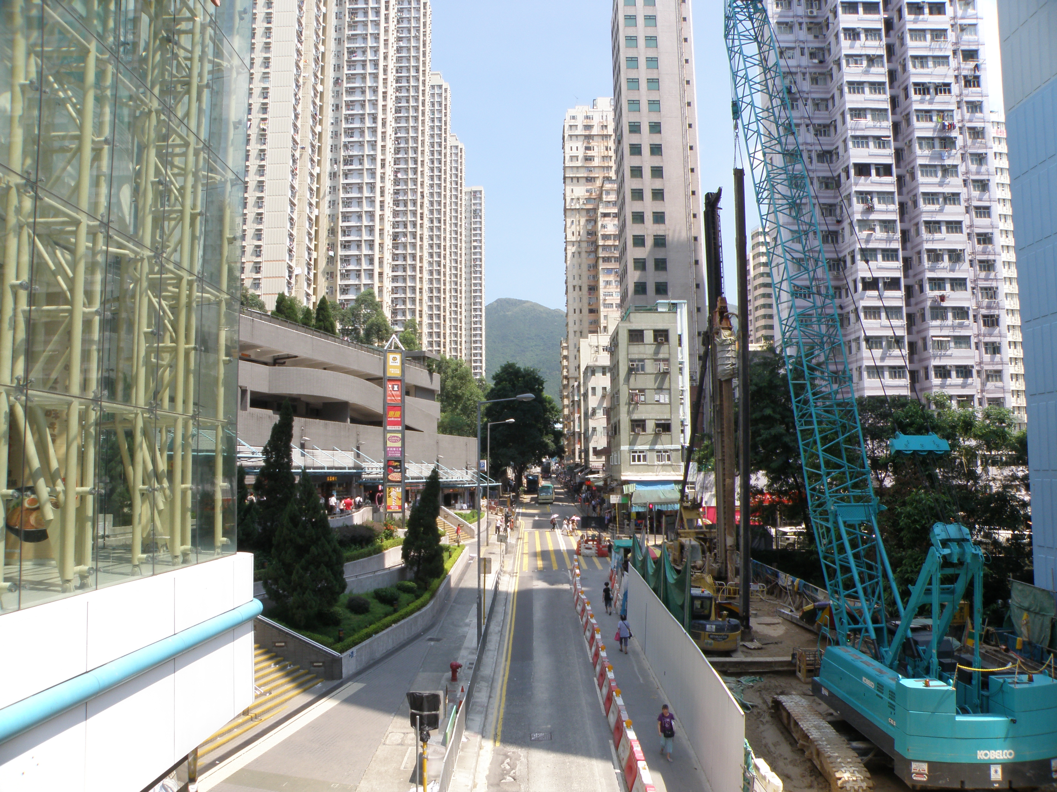 Yuk Wah Street in Tsz Wan Shan, Hong Kong.